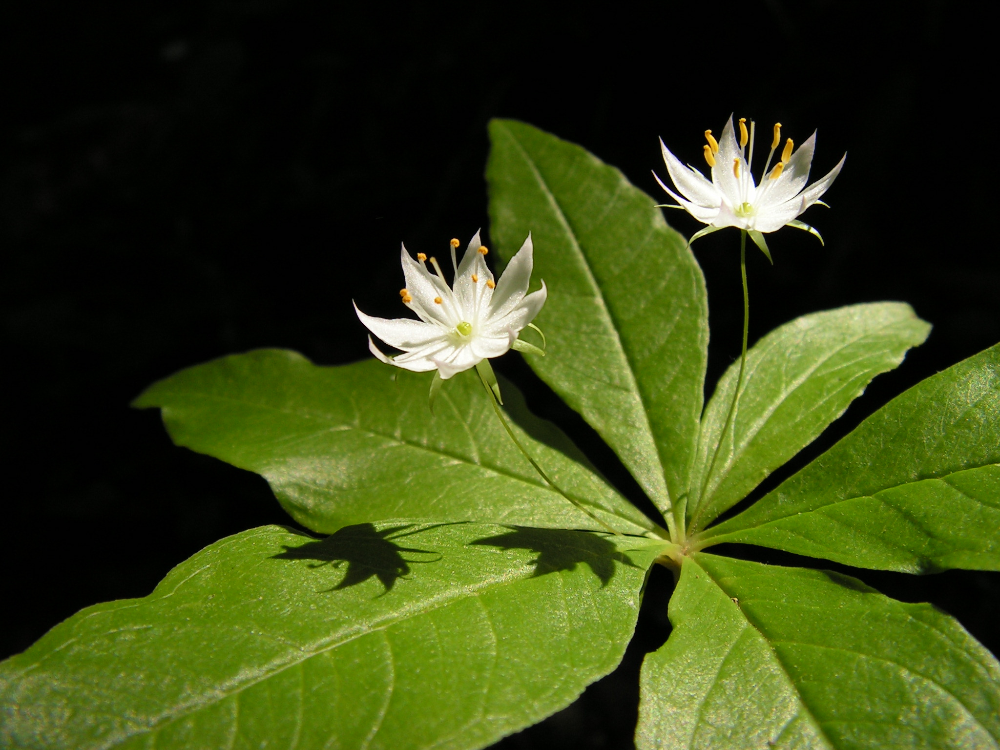 Trientalis borealis, flowers, Port-au-Saumon, Quebec.